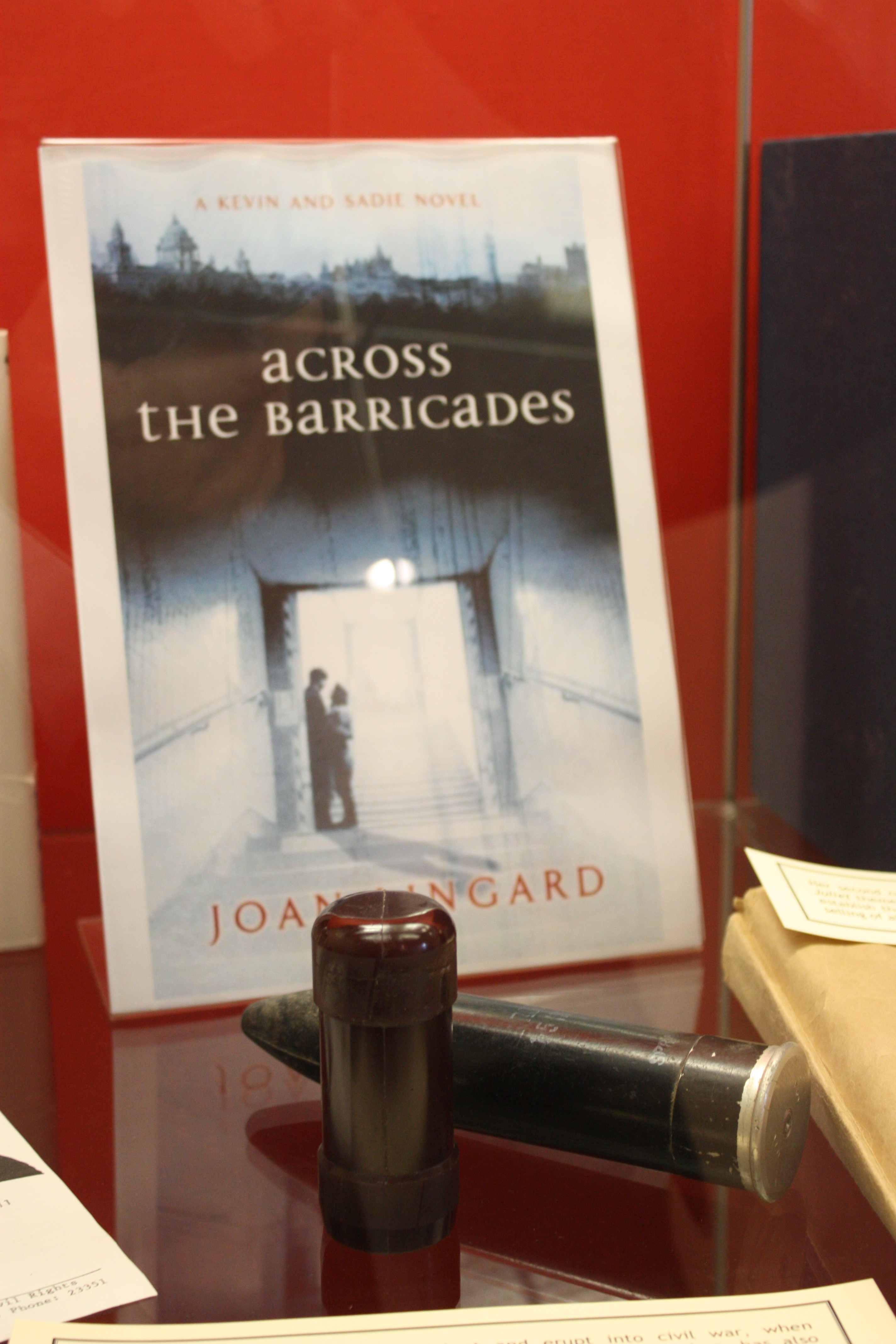 "Crossroads of Change: The Stories of Joan Lingard", Exhibition, Linen Hall Library, Donegall Square North, Belfast, Northern Ireland, August 2010 (part of Troubled Images Exhibition)